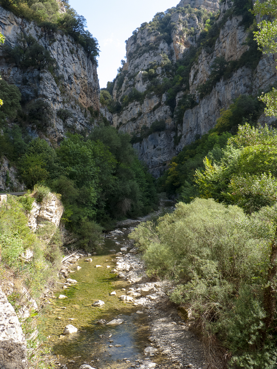 Foz de Biniés This is a photography of a Site of Community Importance in Spain with the ID: ES2410012. Natura2000 entry, EEA entry